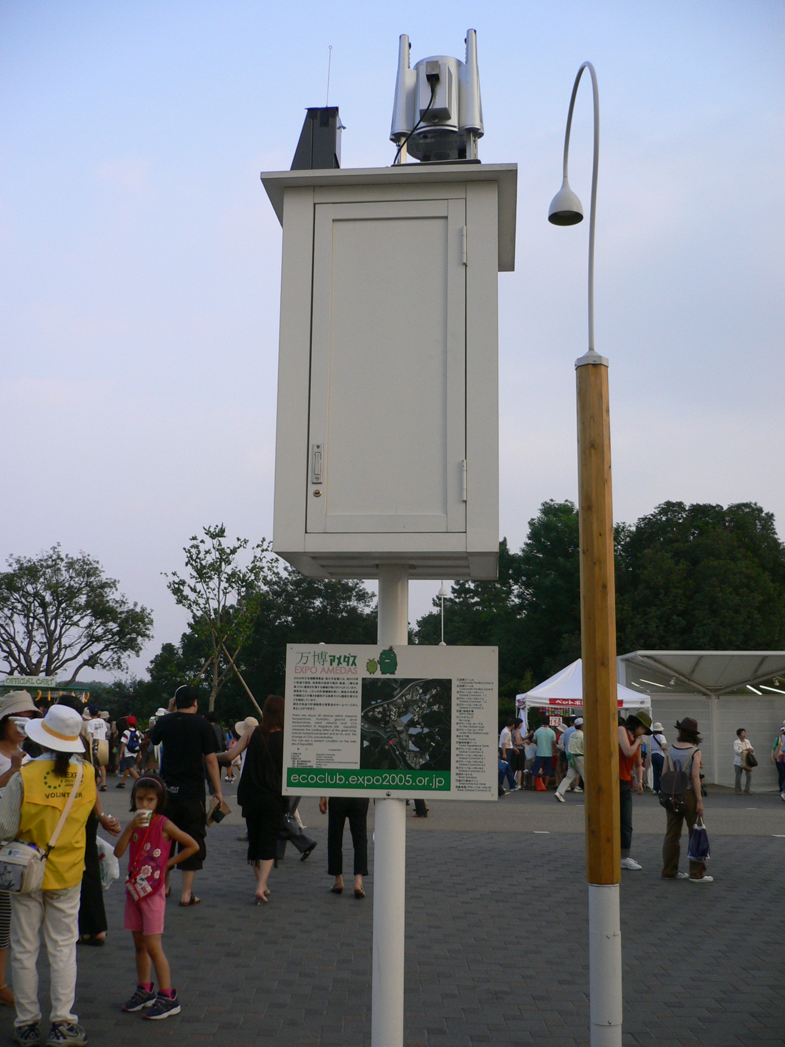 AMeDAS (Expo 2005), Nagakute T, Aichi P.